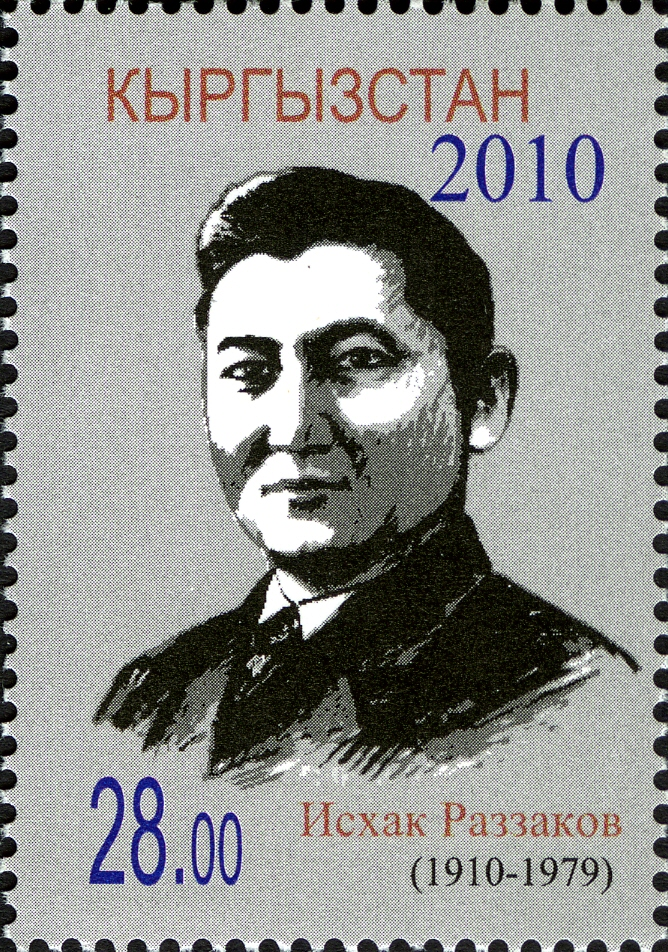 Birth Centenary of Iskhae Razzakov